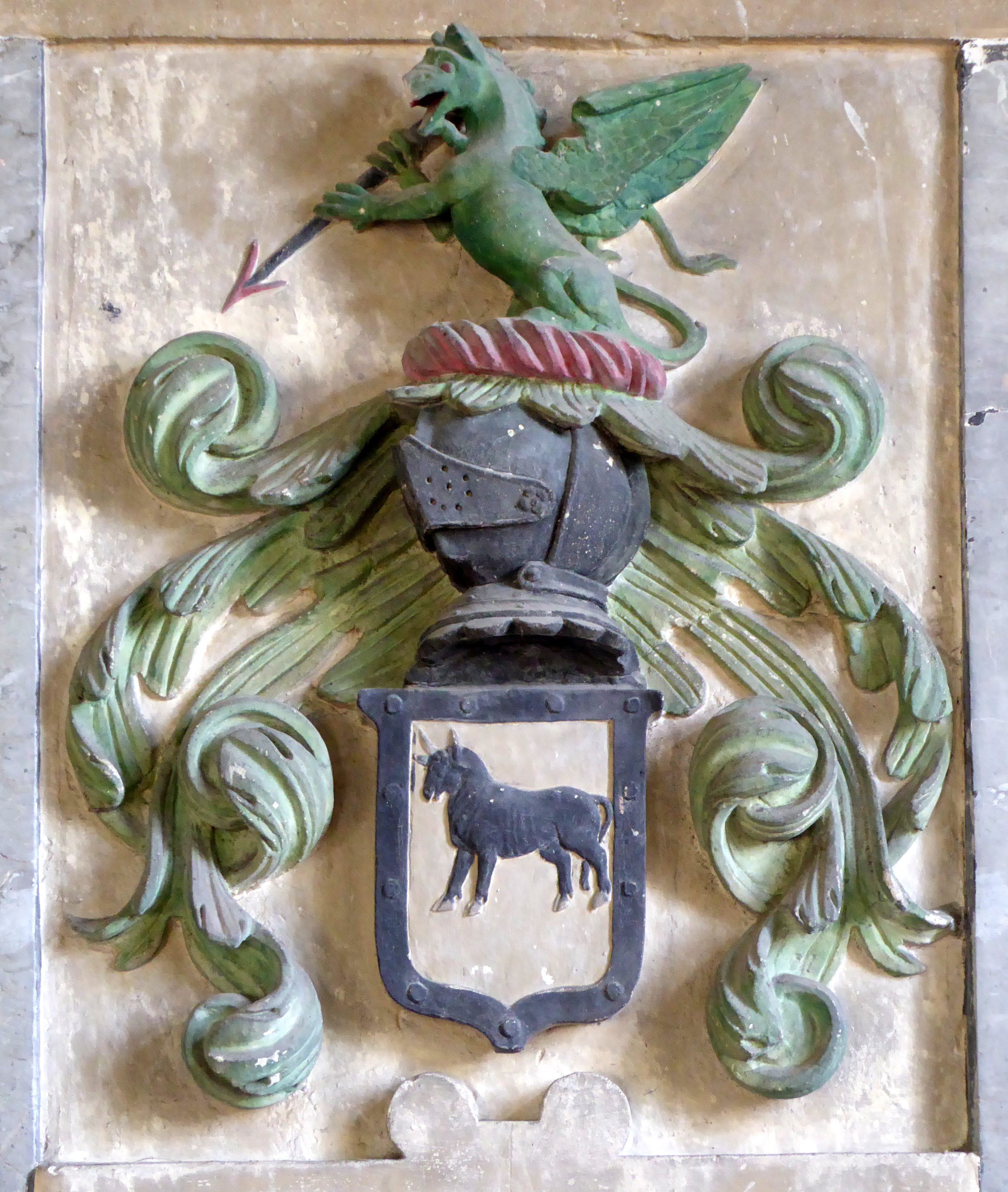 heraldic achievement of Cole of Slade in the parish of Cornworthy, Devon. Detail from monument in All Hallows Church, Woolfardisworthy, Devon, of Richard Cole (d.1614). Arms: Argent, a bull passant sable armed or a bordure of the second bezantée (Vivian, Lt.Col. J.L., (Ed.) The Visitations of the County of Devon: Comprising the Heralds' Visitations of 1531, 1564 & 1620, Exeter, 1895, p.213). The bezants in the bordure have been erroneously restored sable instead of or.